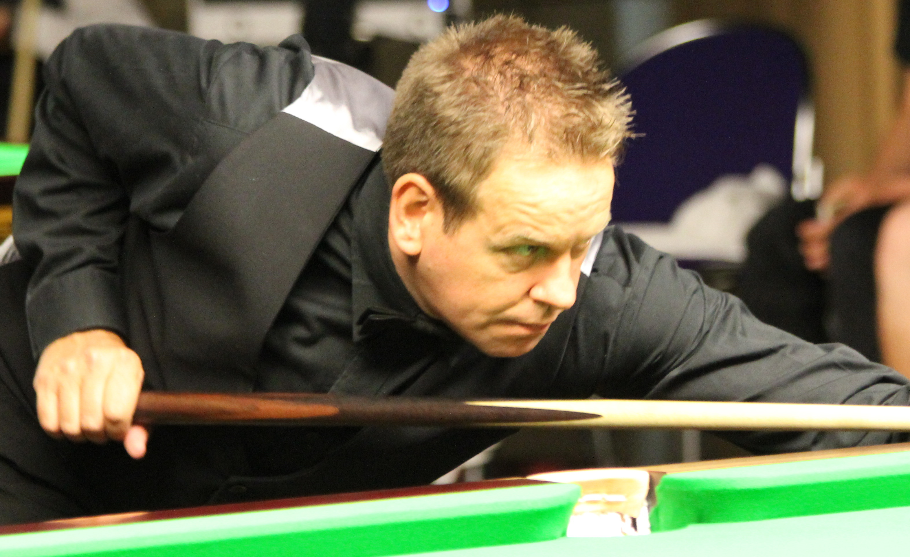 Joe Swail beim Paul Hunter Classic 2012